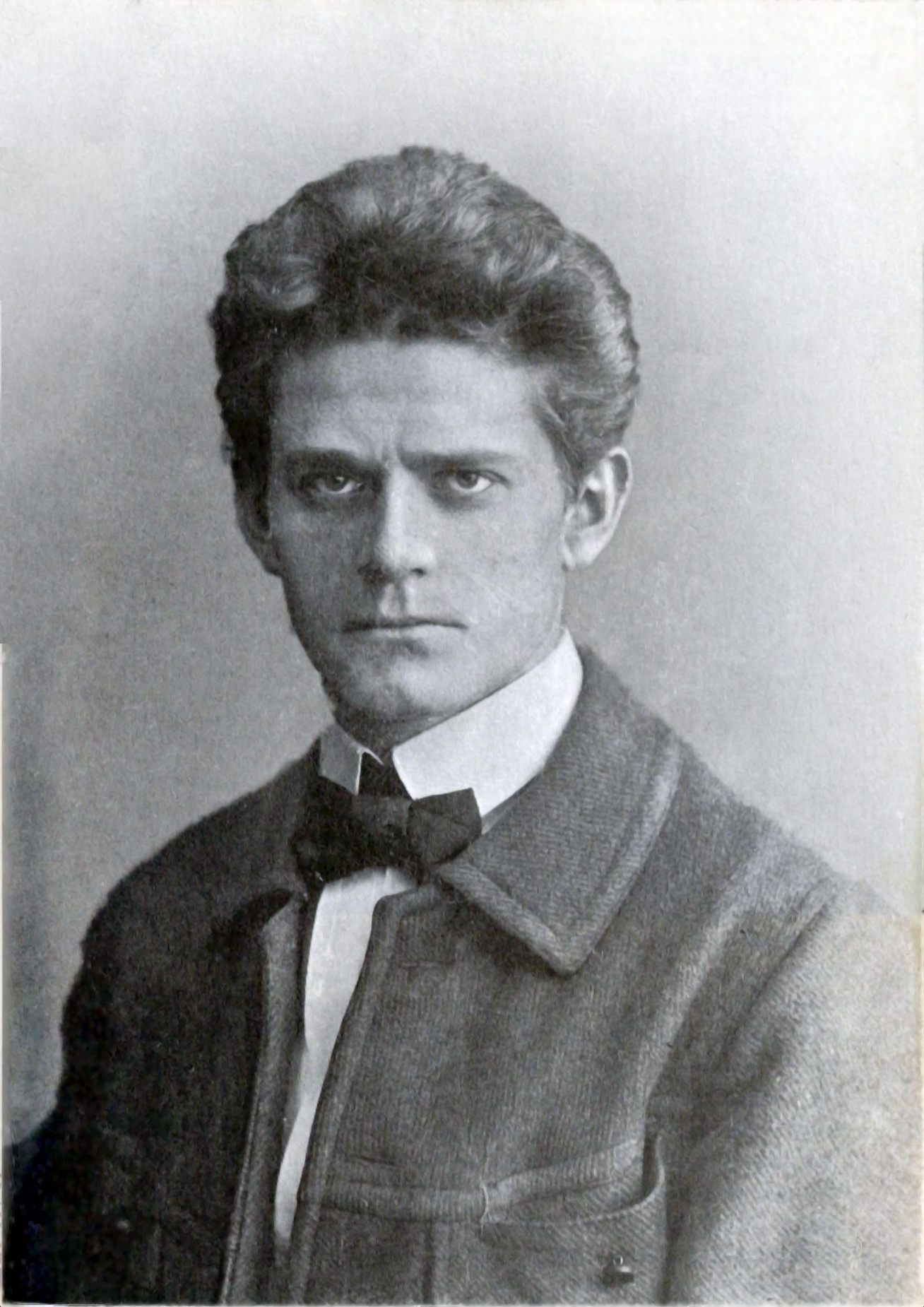 Friedrich Kayssler Date: 1898 Licensing This work is in the public domain in its country of origin and other countries and areas where the copyright term is the author's life plus 70 years or less. You must also include a United States public domain tag to indicate why this work is in the public domain in the United States. Note that a few countries have copyright terms longer than 70 years: Mexico has 100 years, Jamaica has 95 years, Colombia has 80 years, and Guatemala and Samoa have 75 years. This image may not be in the public domain in these countries, which moreover do not implement the rule of the shorter term. Côte d'Ivoire has a general copyright term of 99 years and Honduras has 75 years, but they do implement the rule of the shorter term. Copyright may extend on works created by French who died for France in World War II (more information), Russians who served in the Eastern Front of World War II (known as the Great Patriotic War in Russia) and posthumously rehabilitated victims of Soviet repressions (more information). This file has been identified as being free of known restrictions under copyright law, including all related and neighboring rights.